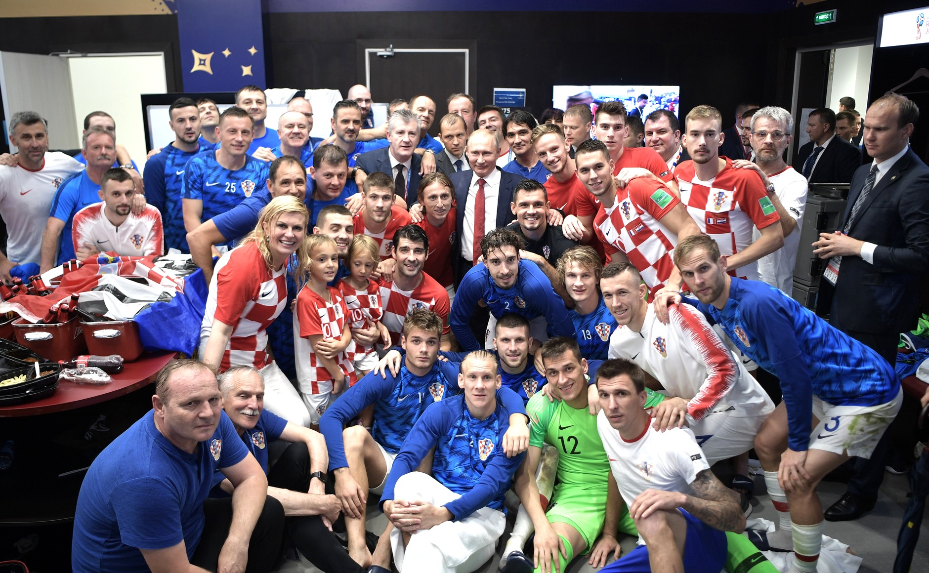 The Croatia national football team gather around for the cameras in the dressing rooms at Luzhniki Stadium with the President of the Russian Federation Vladimir Putin and President of Croatia Kolinda Grabar-Kitarović, to commemorate their appearance at the 2018 FIFA World Cup Final. While they lost the match to France by two goals to four, the team celebrated their country's best result at a FIFA World Cup yet, placing second and topping their third-place finish at the 1998 FIFA World Cup.